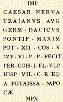 Inscription from the Milliarum of Aiton, a Roman milestone discovered in Aiton commune, near Cluj-Napoca, Romania. The milestone dates from 108 CE and shows the construction of the road from Potaissa to Napoca, by demand of the Emperor Trajan. It indicates the distance of ten thousand feet (P.M.X.) to Potaissa. It is the first epigraphical attestation of the settlements of Potaissa and Napoca in Roman Dacia. The complete inscription is: "Imp[erator]/ Caesar Nerva/ Traianus Aug[ustus]/ Germ[anicus] Dacicus/ pontif[ex] maxim[us]/ [sic] pot[estate] XII co[n]s[ul] V/ imp[erator] VI p[ater] p[atriae] fecit/ per coh[ortem] I Fl[aviam] Vlp[iam]/ Hisp[anam] mil[liariam] c[ivium] R[omanorum] eq[uitatam]/ a Potaissa Napo/cam / m[ilia] p[assuum] X". The inscription was recorded in Corpus Inscriptionum Latinarum (Berlin: G. Reimerum, 1863), vol. III, the 1627.